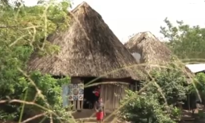 Indigenous houses near Zanjon el Chino and Zanjon el Garrobo, in Ahuachapan department of El Salvador